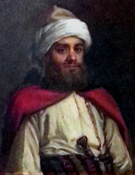 A portrait of Emir Faḫereddin II placed in Beit ed-Dine palace.